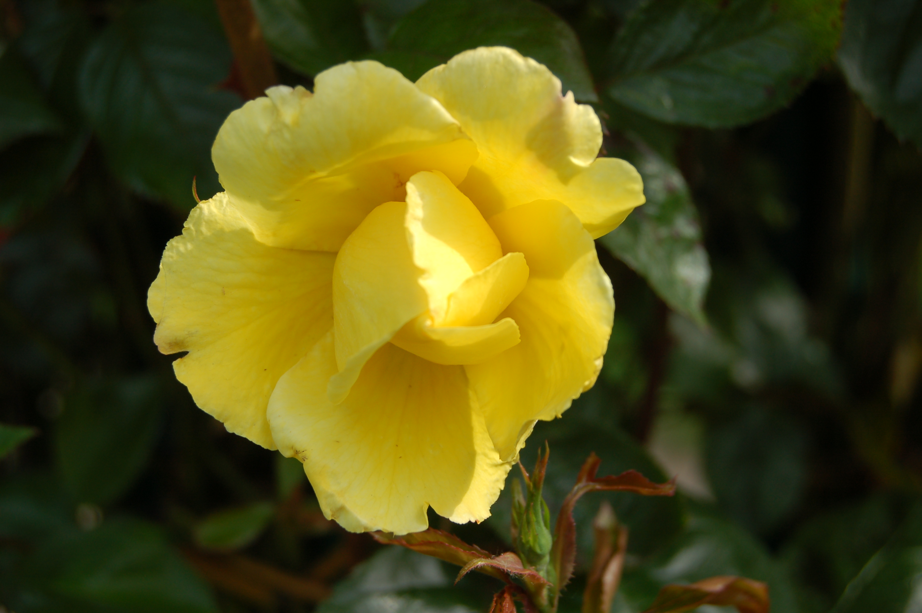 Rosa 'Golden Showers'